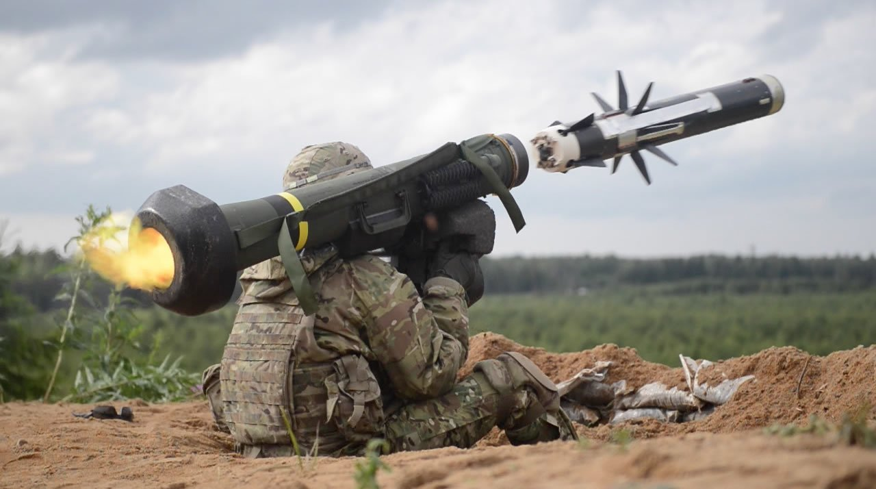 A U.S. Army Soldier from 2nd Cavalry Regiment fires a FGM-148 Javelin during the combined arms live fire training exercise for Saber Strike 16 at the Estonian Defense Forces central training area near Tapa, Estonia. Saber Strike is a long-standing U.S. Army Europe-led cooperative training exercise designed to improve joint interoperability through a range of missions that prepare the 14 participating nations to support multinational contingency operations.